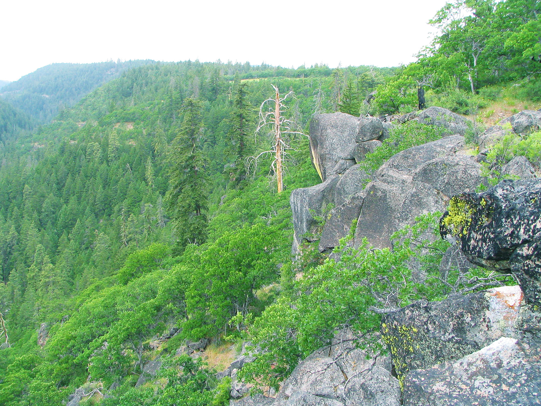 The United States Congress designated the Lower White River Wilderness (map) in 2009 and it now has a total of 2,806 acres. All of this wilderness is located in Oregon and is managed by the Bureau of Land Management and the Forest Service. The White River rises in the high Cascades in western Wasco County, in the Mount Hood National Forest on the southeast flank of Mount Hood. The headwaters are just below White River Glacier in White River Canyon. Additions to the Mount Hood Wilderness protect upper portions of the river, while the Lower White River Wilderness, southeast of the Mount hood Wilderness and east of highway 26, protects a segment of lower river stretch.